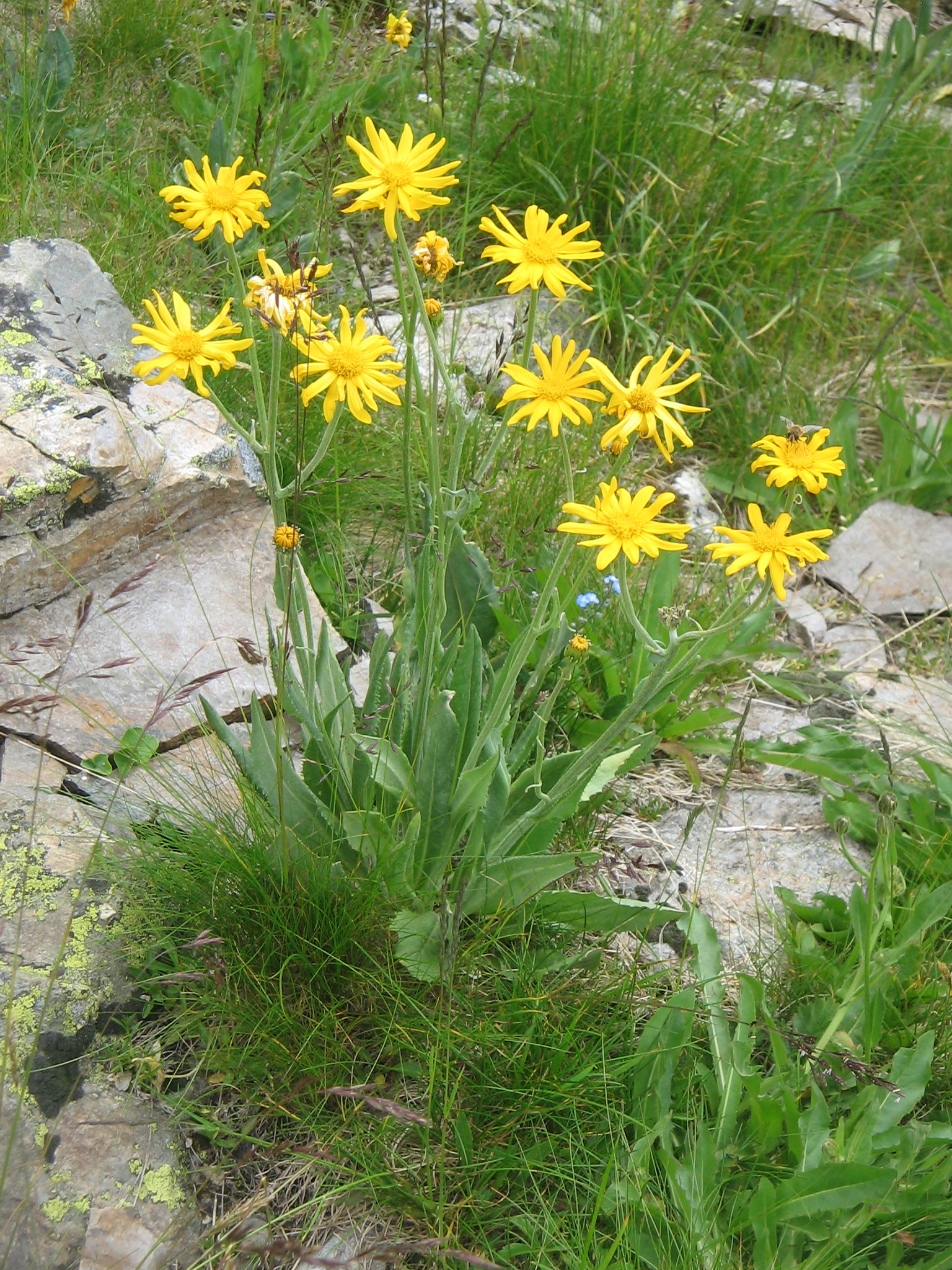 Senecio doronicum